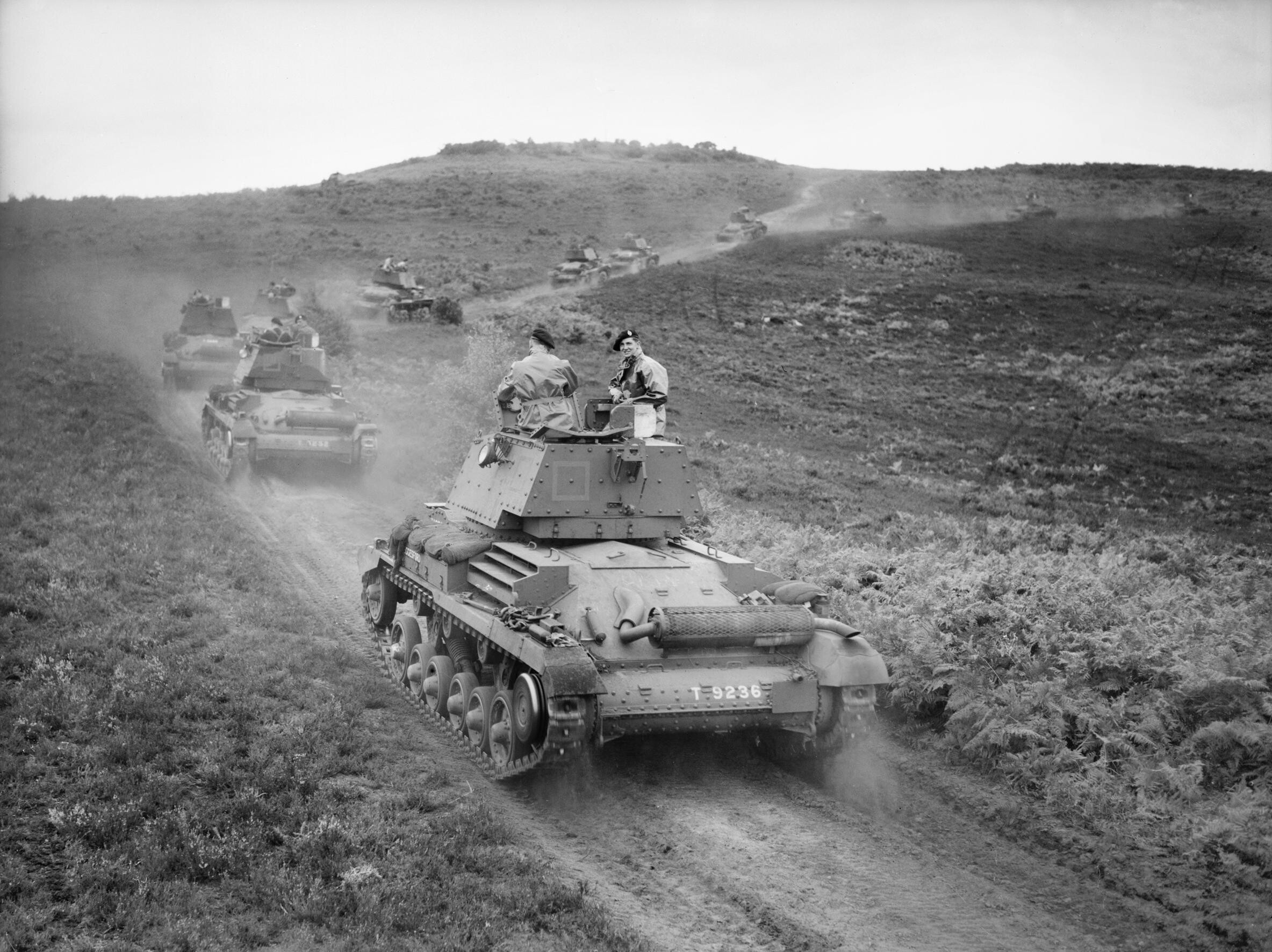 Cruiser Mk I tanks of 5th Royal Tank Regiment, 1st Armoured Division, on Thursley Common, Surrey, July 1940. Cruiser Mk I tanks of 5th Royal Tank Regiment, 3rd Armoured Brigade, 1st Armoured Division, on Thursley Common, Surrey, July 1940.